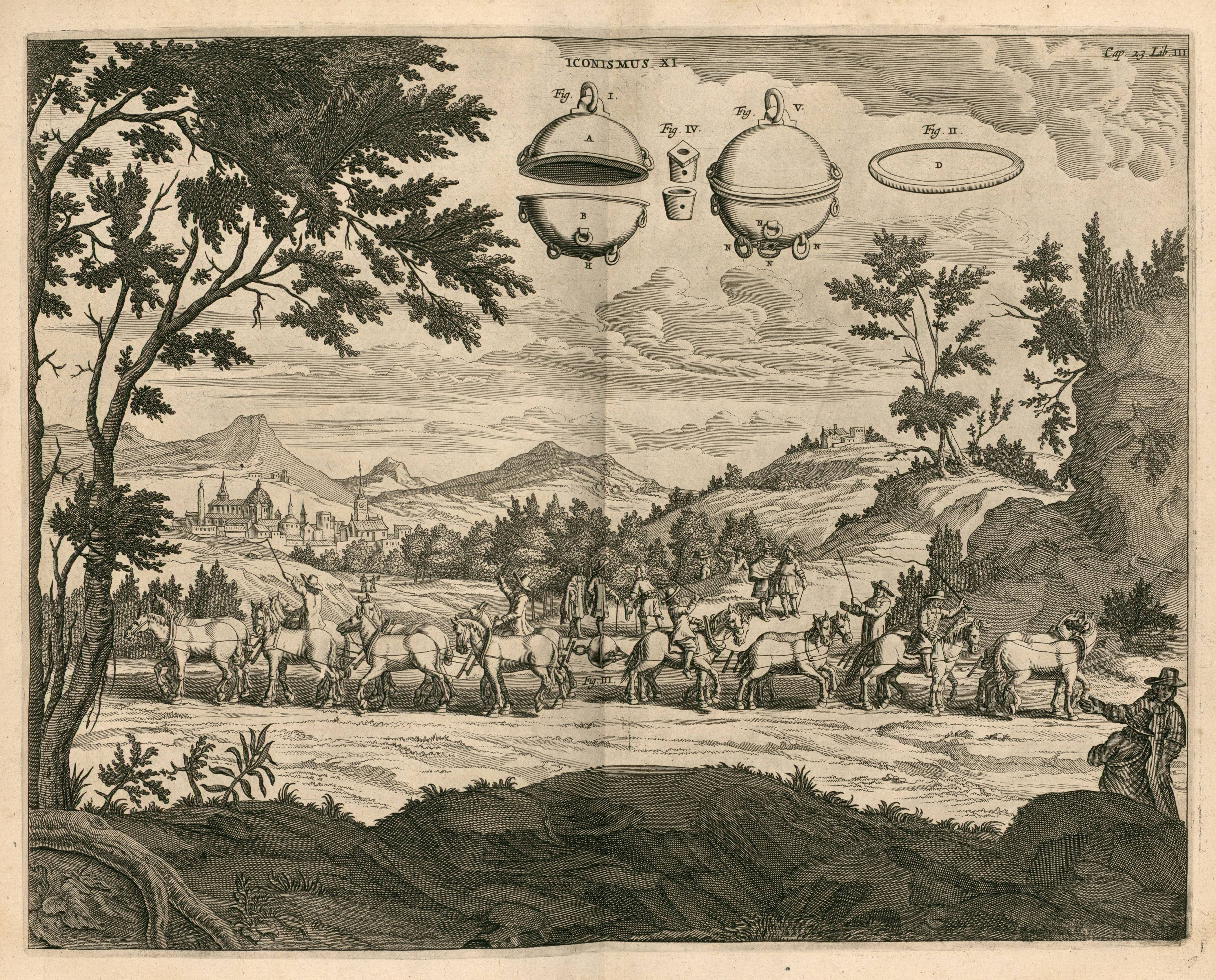 Engraving showing Otto von Guericke's 'Magdeburg hemispheres' experiment